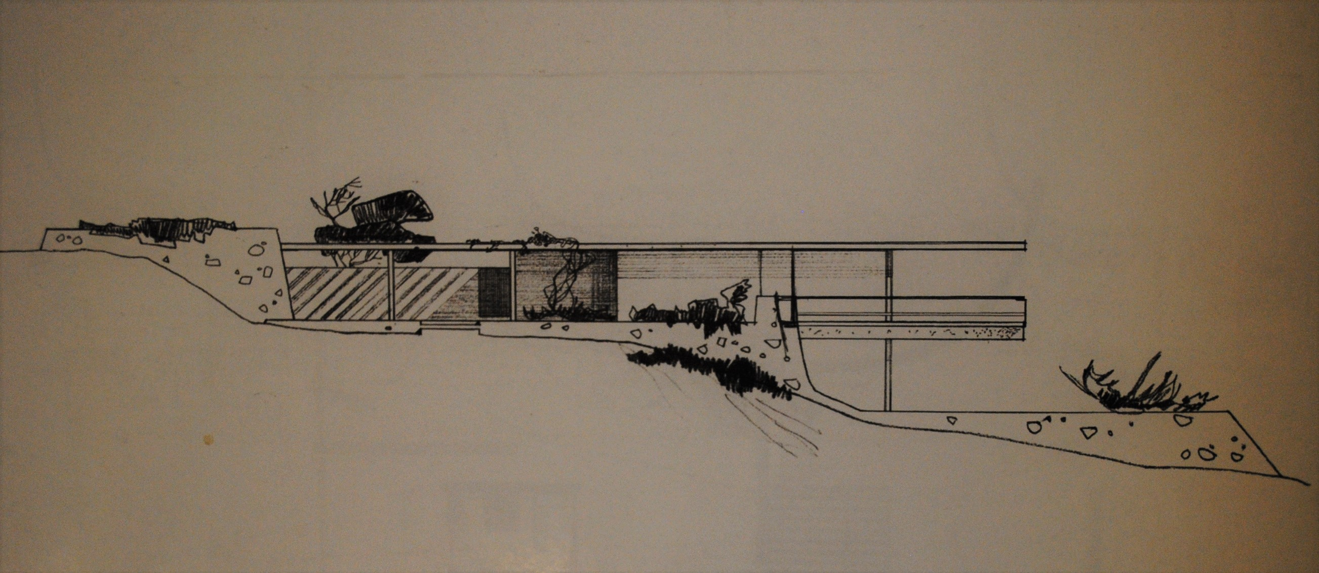 Σκίτσο Τομής σχέση με το έδαφος